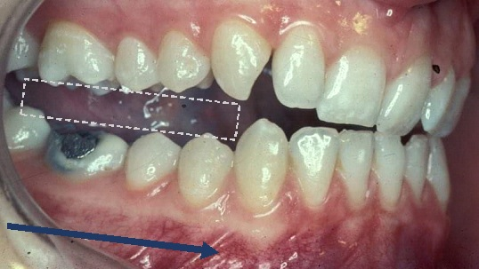 Posterior disocclusion of teeth as the mangible is protruded